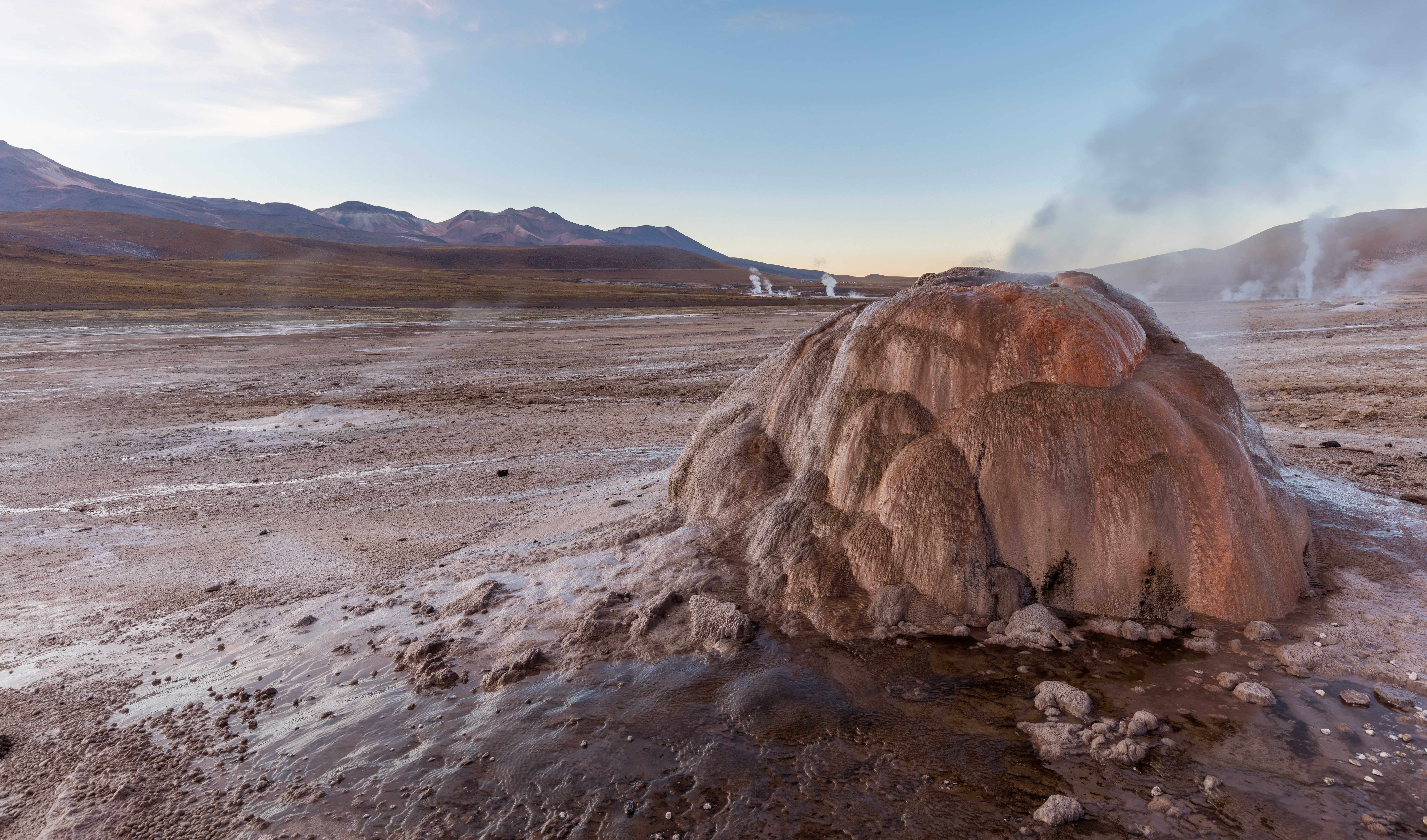 Geysers of Tatio, San Pedro de Atacama, Chile